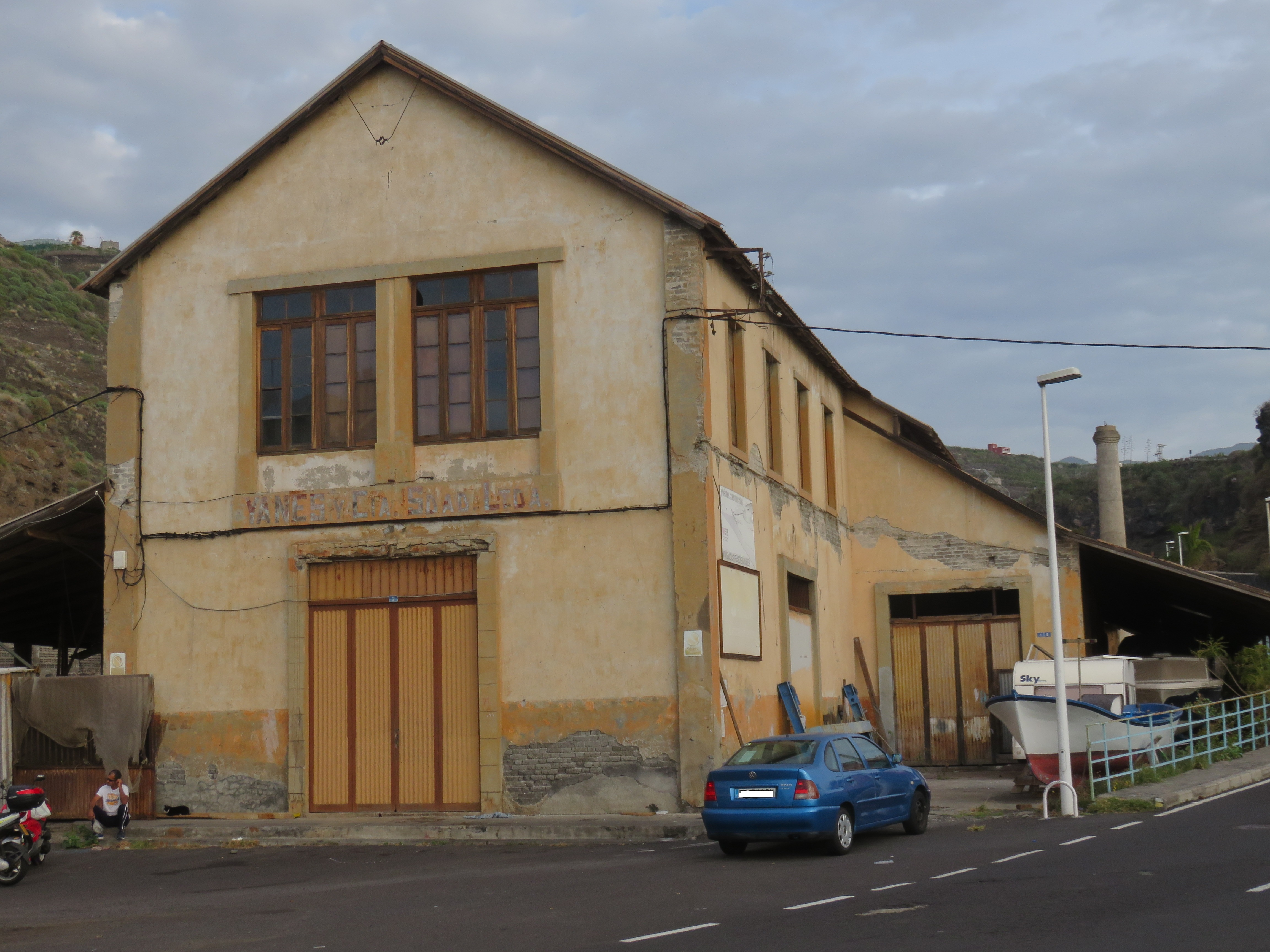 Puerto Tazacorte, former warehouse and sugar mill